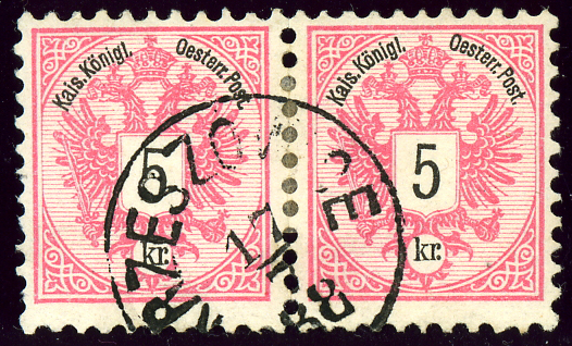 Austrian KK stamps, 5 kreuzer pair cancelled at KRZESZOWICE in 1888 (Galicia, Poland)